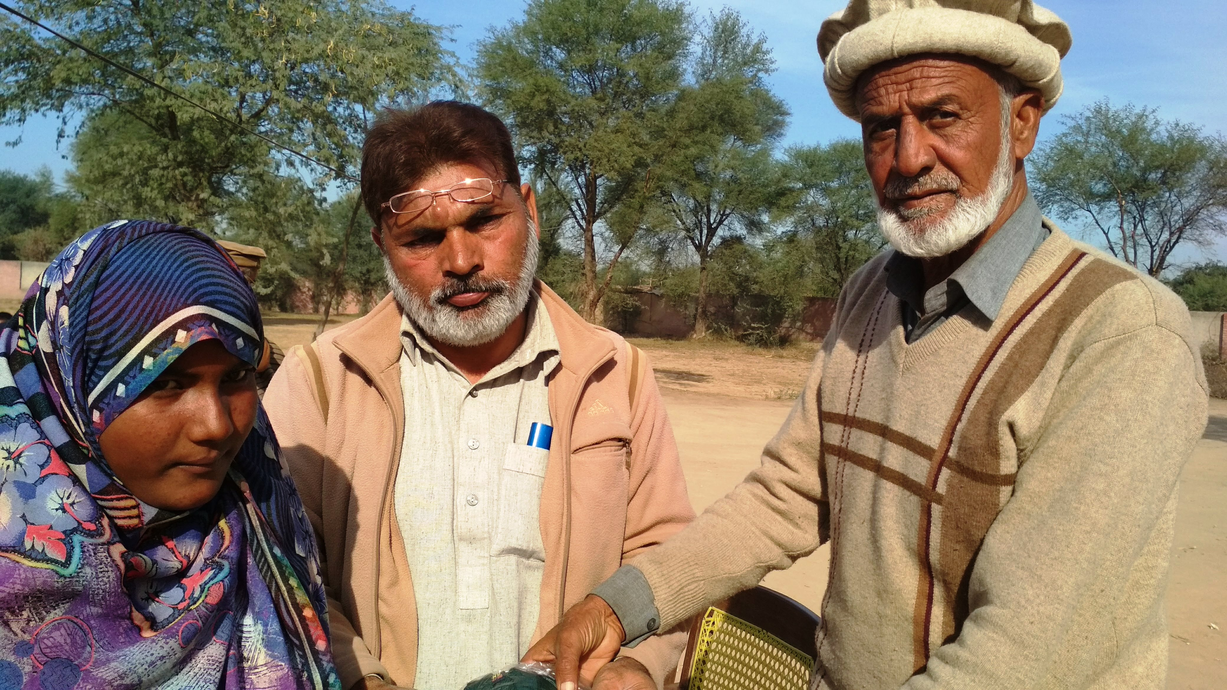 Syed Asghar Husain Shah delivers sweaters at school.